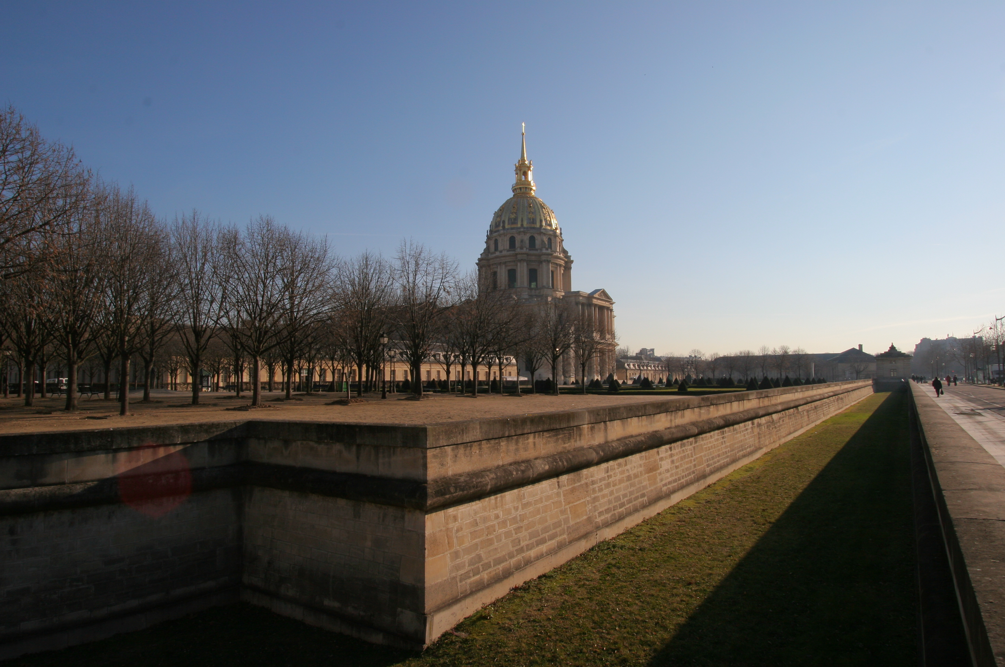 Hotel National des Invalides, Paris, seen from the southwest, from the outside